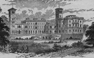 Osbourne House, Projeto Gutenberg, texto 13103, "Great Britain and Her Queen", por Anne E. Keeling